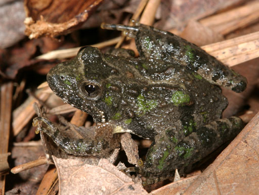 Northern Cricket Frog, Acris crepitans. Location: Durham County, North Carolina, United States.